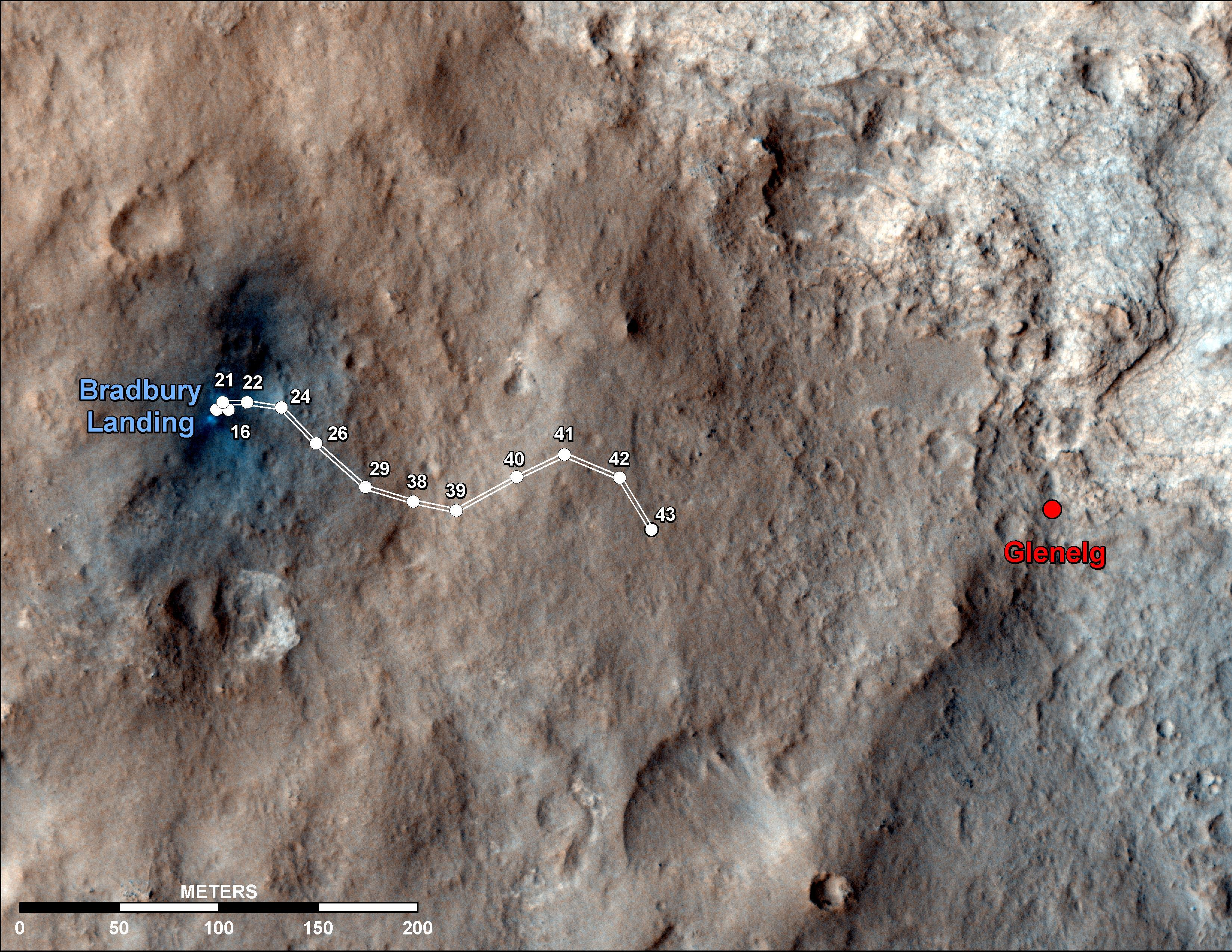 09.19.2012 Curiosity Traverse Map Through Sol 43 This map shows the route driven by NASA's Mars rover Curiosity through the 43rd Martian day, or sol, of the rover's mission on Mars (Sept. 19, 2012). The route starts where the rover touched down, a site subsequently named Bradbury Landing. The line extending toward the right (eastward) from Bradbury Landing is the rover's path. Numbering of the dots along the line indicate the distance driven each sol. North is up. The scale bar is 200 meters (656 feet). By Sol 43, Curiosity had driven at total of about 950 feet (290 meters). The Glenelg area farther east is the mission's first major science destination, selected as likely to offer a good target for Curiosity's first analysis of powder collected by drilling into a rock. The image used for the map is from an observation of the landing site by the High Resolution Imaging Science Experiment (HiRISE) instrument on NASA's Mars Reconnaissance Orbiter. Image Credit: NASA/JPL-Caltech/Univ. of Arizona